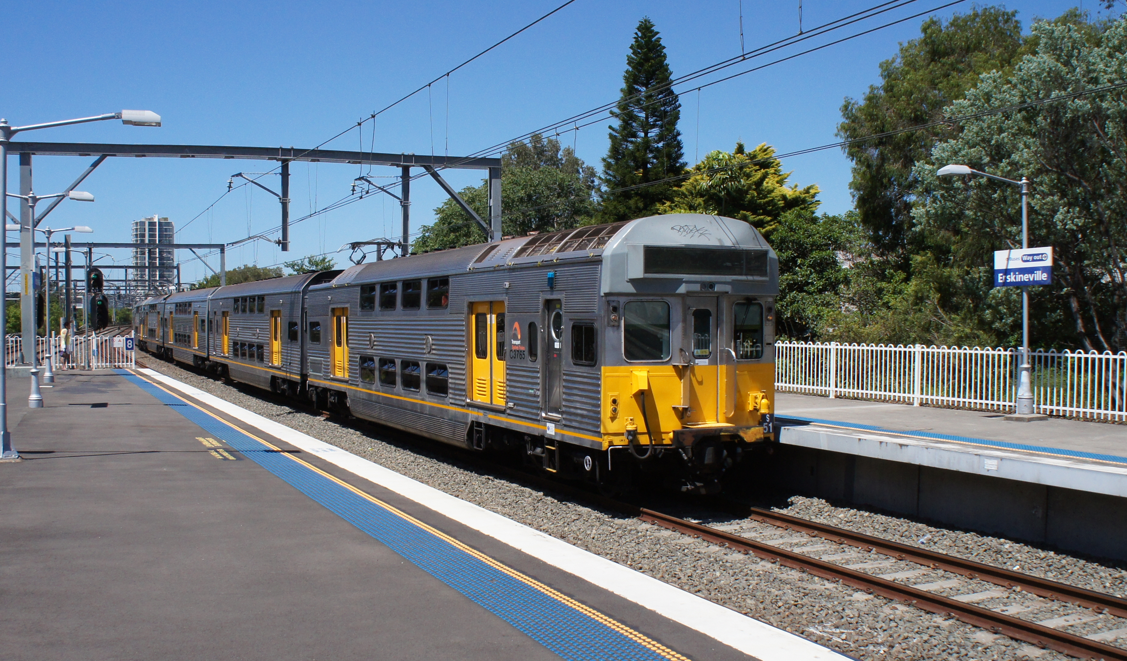 C3765 - the last S set power car manufactured - slows for a stop at Erskineville, leading a now rare 8-car S set on an up Bankstown train. Only twelve months ago, these were still the most prevalent train on the network - but with one of the Chinese-manufactured Waratah trains entering service each fortnight, they'll soon be all but gone from main line working.